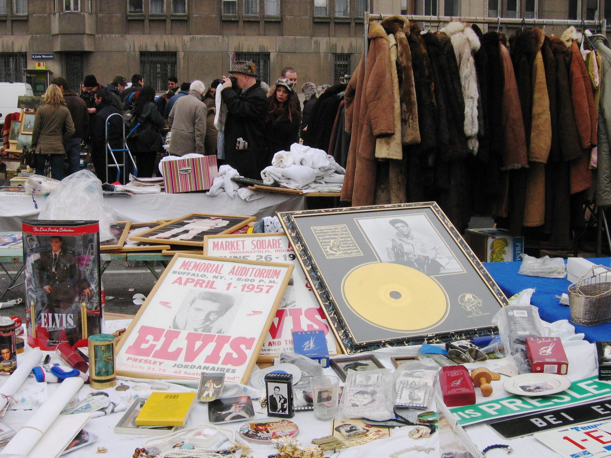 Flea market on the Naschmarkt, a desk full of Elvis Presley souvenirs